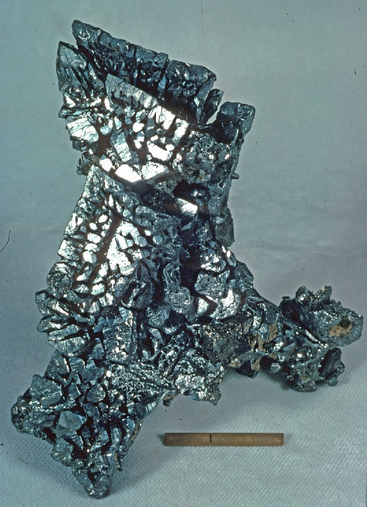 Acanthite - Locality: Chispas Mine (Pedrazzini mine), Arizpe, Mun. de Arizpe, Sonora, Mexico - Scale at bottom of image is one inch with a rule at one cm.